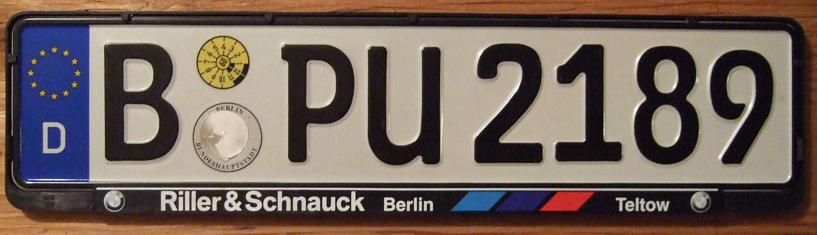 GERMANY, BERLIN 2009 license plate with BERLIN FRAME